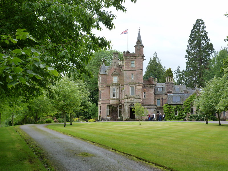 Aigas House. The house was built in its present form as a Victorian hunting lodge. It is now the hub of the Aigas Field Centre. Near to Aigas, Highland council area, Scotland.